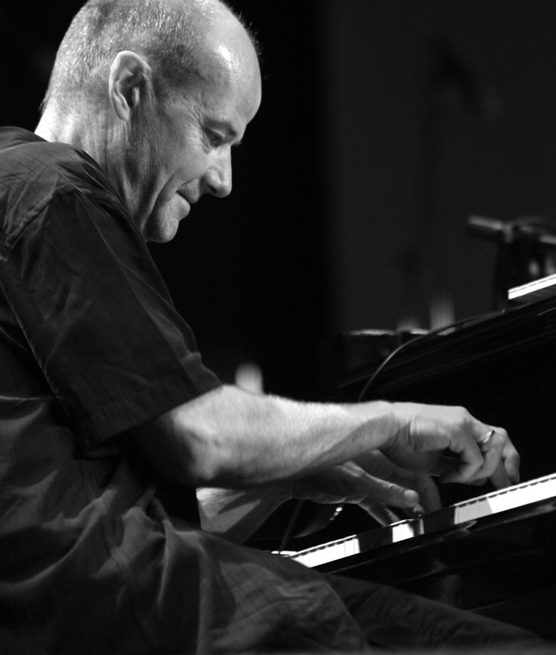 The photo shows the Norwegian jazz musician Jon Balke in Berchidda, Sardinia